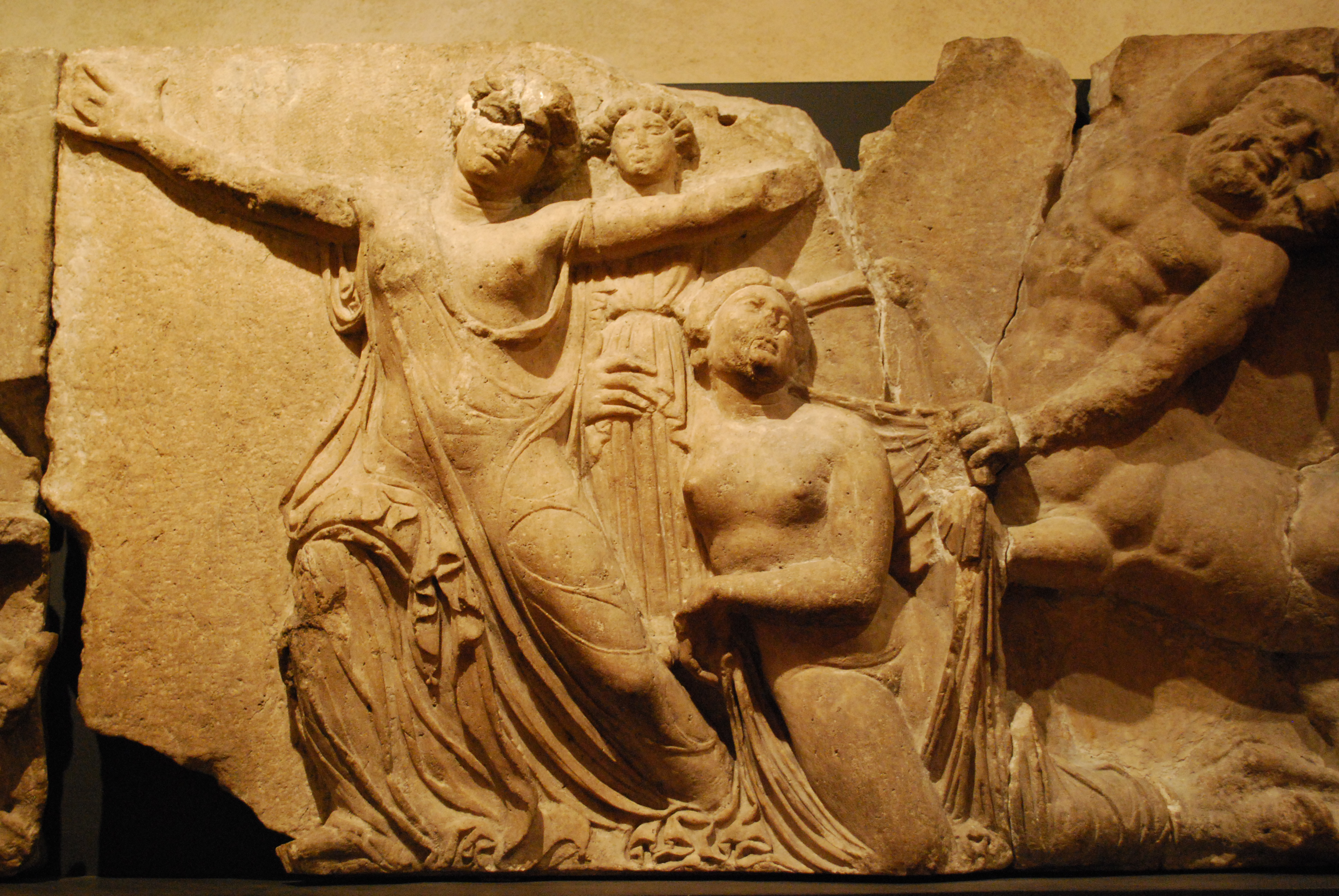 The Bassae Frieze is made from a set of 23 marble panels that were in the Temple of Apollo at Bassae. They were carved just before 400 B.C. The stones are on permanent display in a specially constructed room in Gallery 16 in the British Museum in London. Copies of this frieze decorated the walls of the Ashmolean Museum and London's Travellers Club. (Note the source numbers below show the order of the pictures)